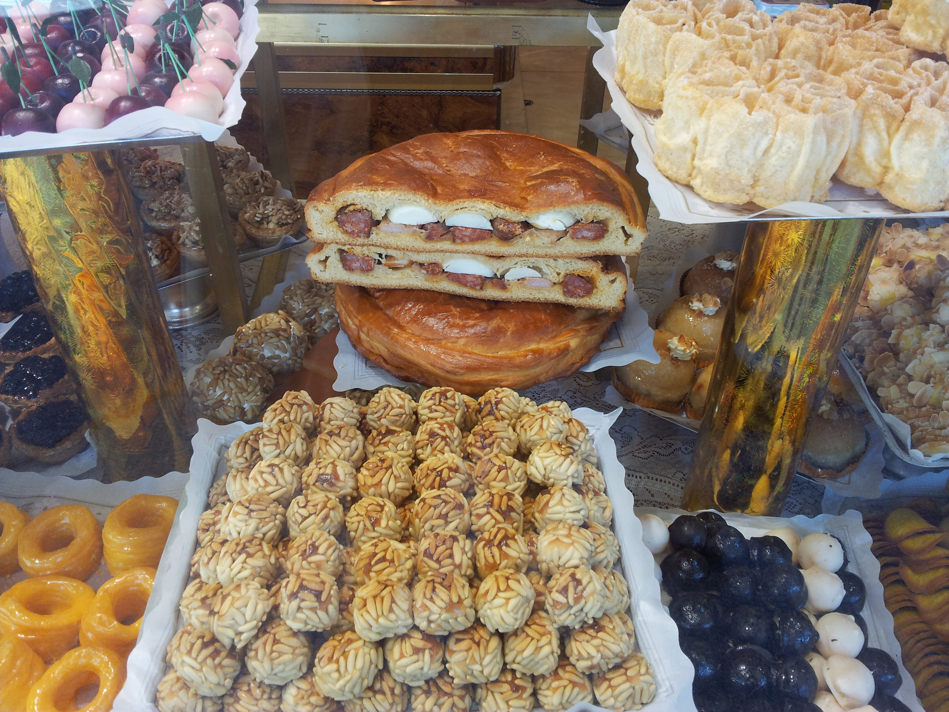 Hornazo with sausages (chorizo), loin and hard-boiled eggs. Empiñonados, flowers and other sweets in Ávila, Spain